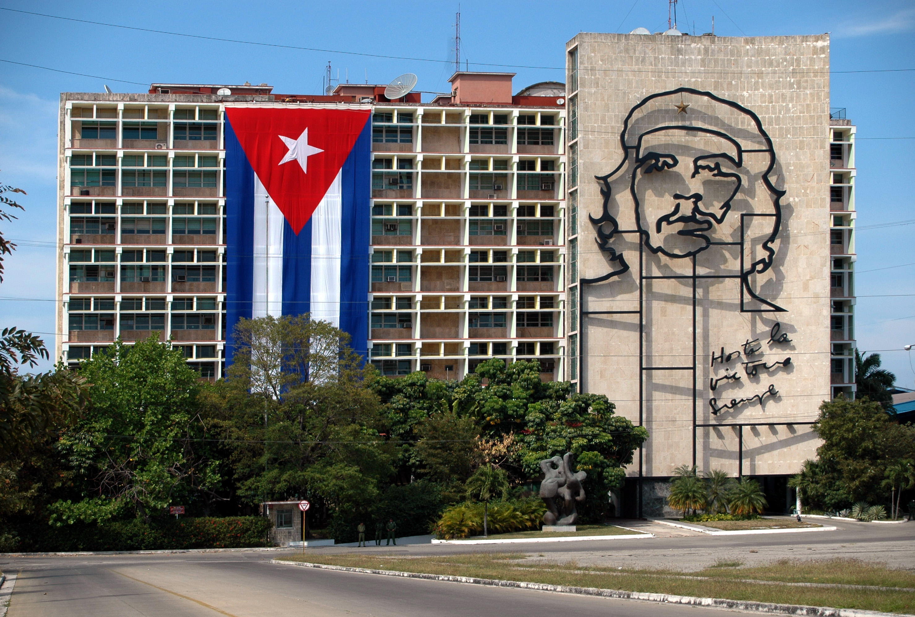 Cuba, Havana, Plaza de la Revolucion, Ministry of Interior, Che Guevara